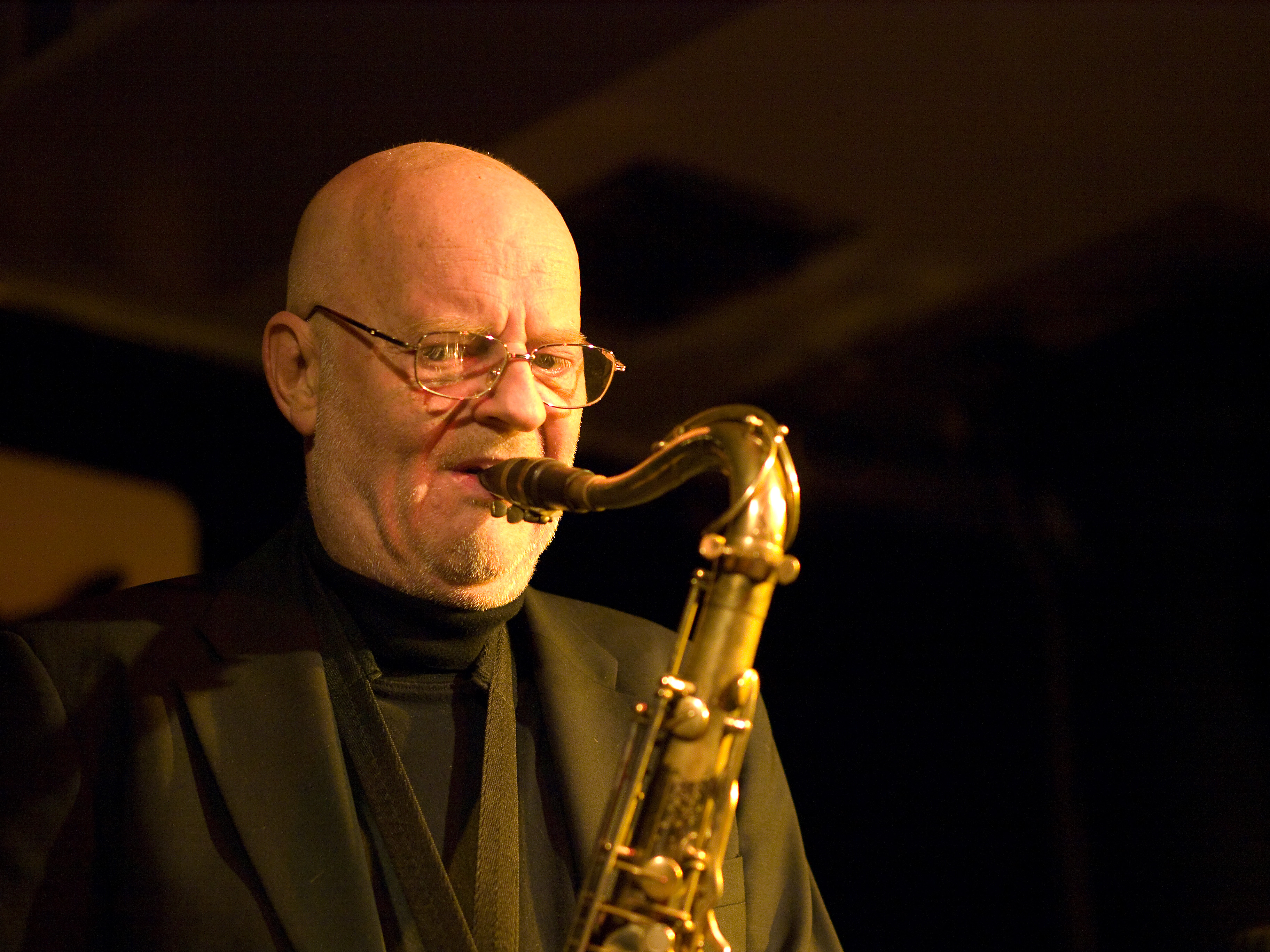 Andy Scherrer, double bass, picture taken in Jazz club "Unterfahrt" in Munich/Germany